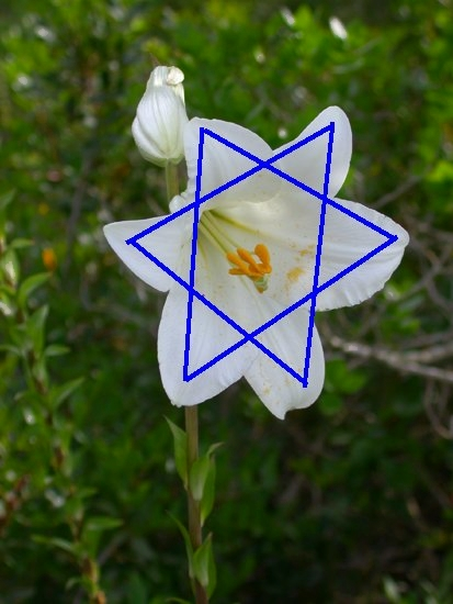 The pettels of Lilium candidum form a shape of Star of David